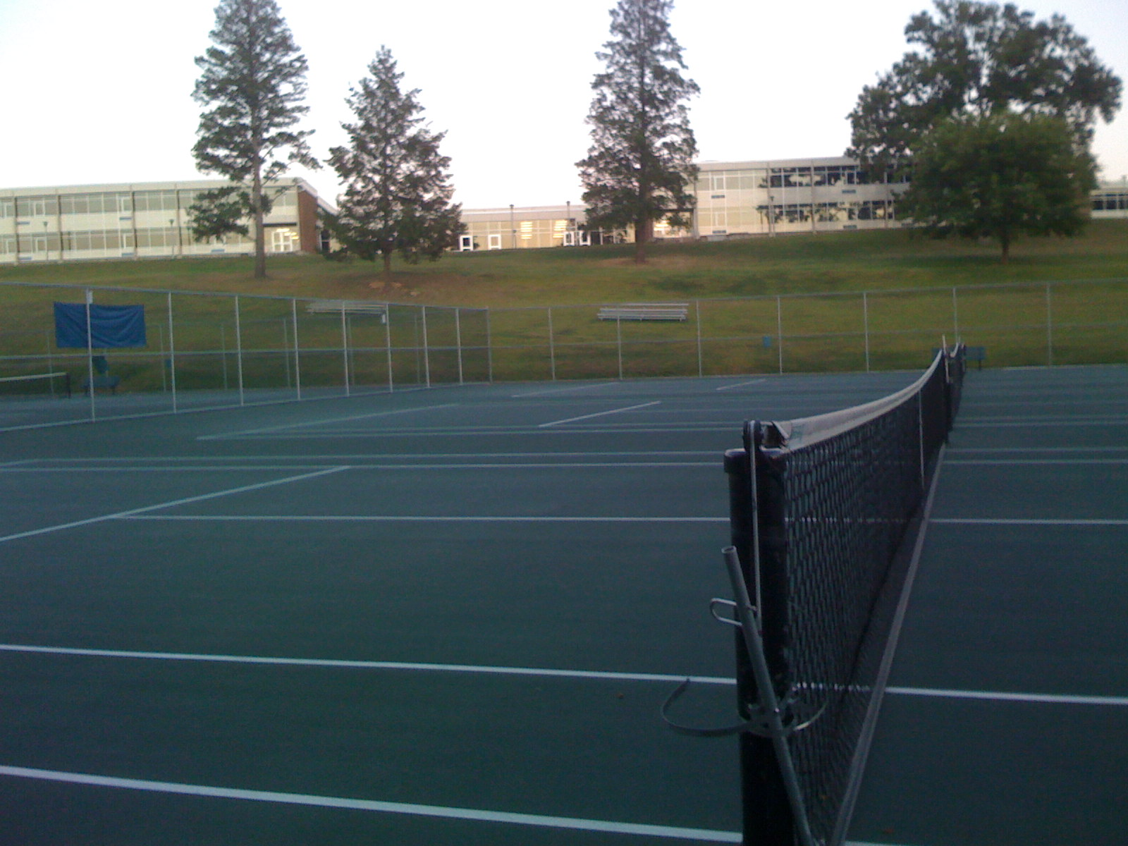 Suffern High School Tennis Courts With The Campus in the Background.